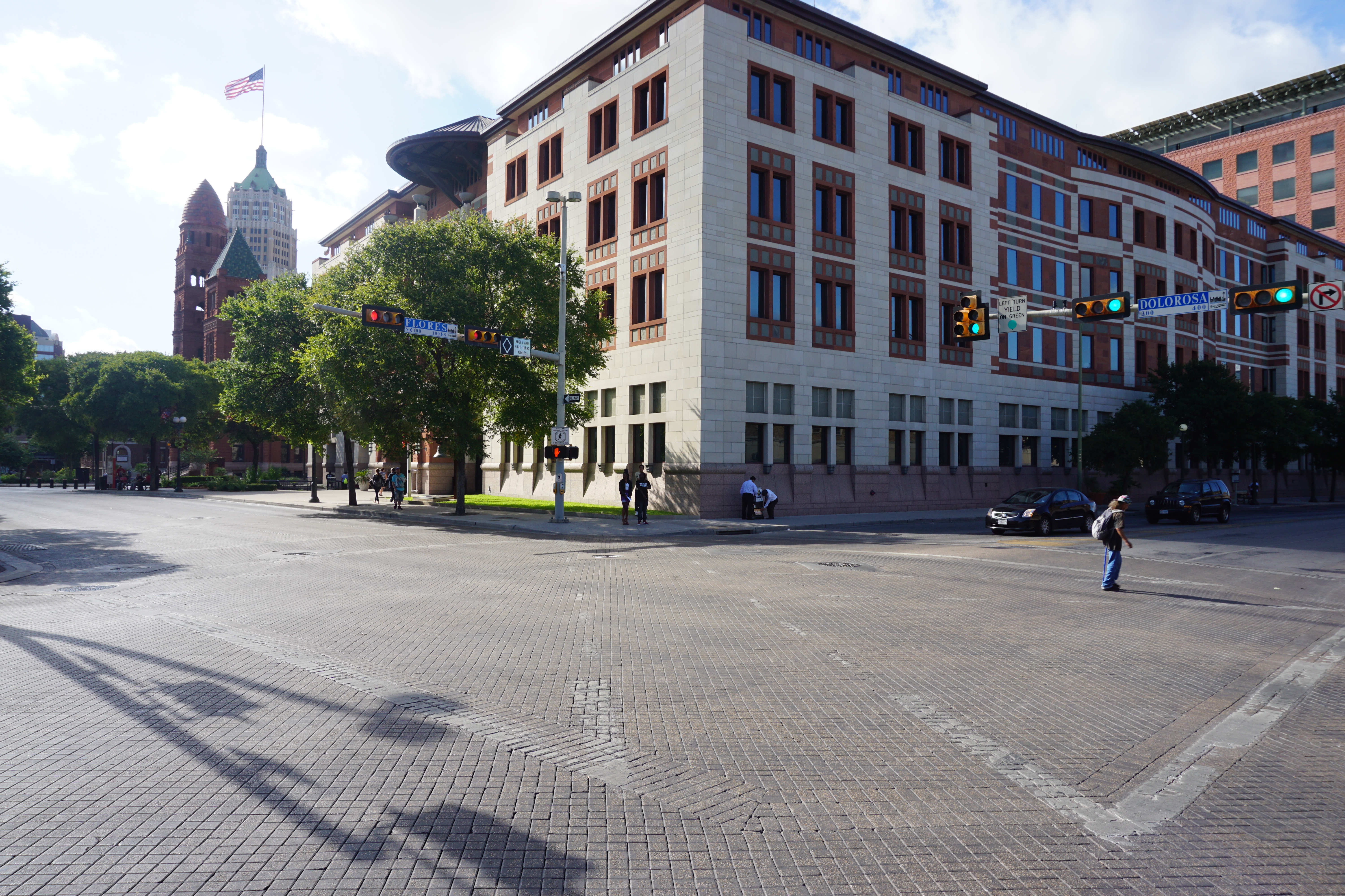 The intersection of South Flores Street and Dolorosa in San Antonio, Texas (United States).